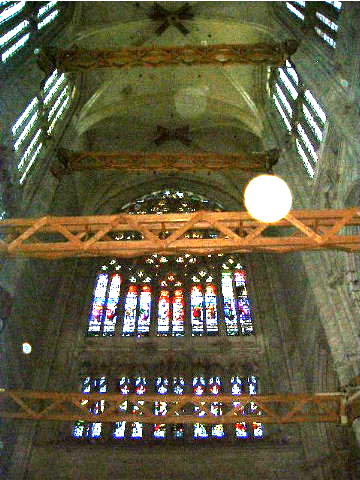 photo of beauvais cathedral taken in 2002, own work